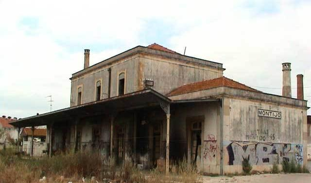 Historic railway station of Montijo